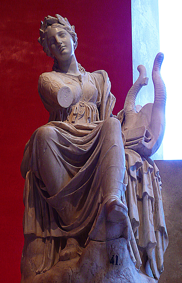 The Muse Terpsichore. Roman statue based on an Attic model from 150–100 BC.